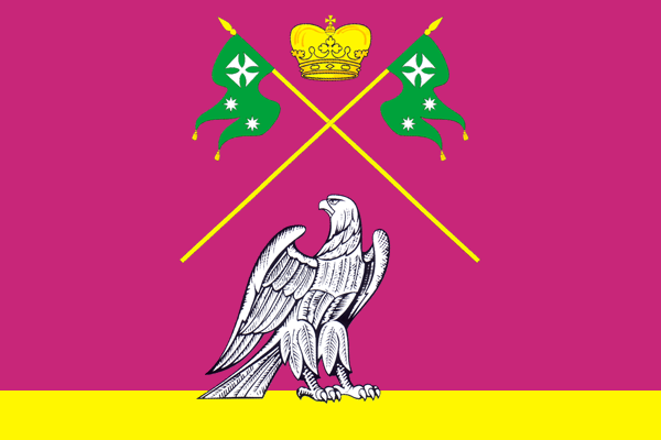 Flag of Vyselkovsky rayon, Krasnodar Territory, Russia